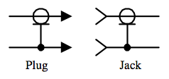 own work own work